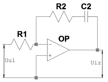 Regulator proporcionalno-integralnog dejstva